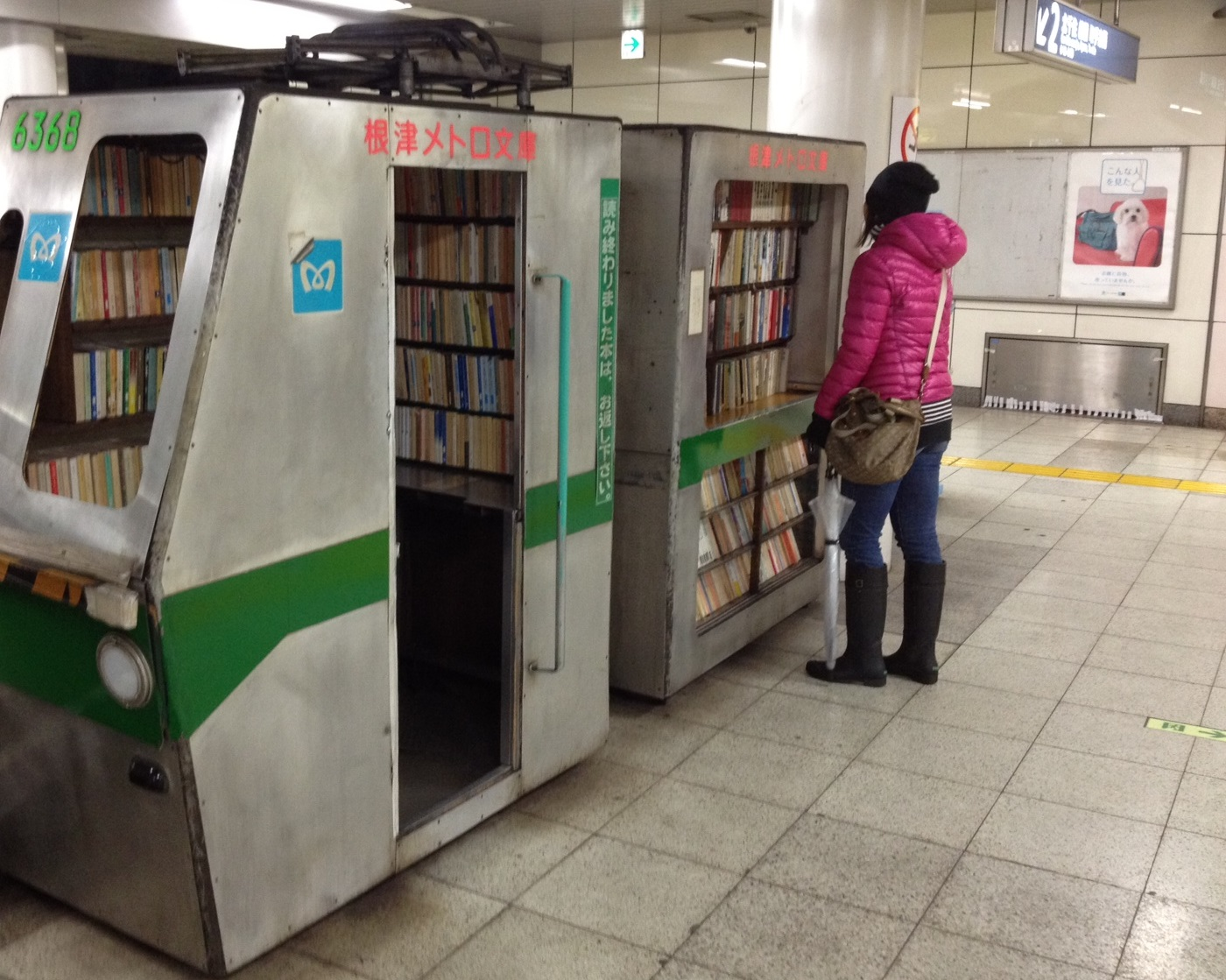 Little Free Library in Nezu Station, Tokyo Metro, Japan